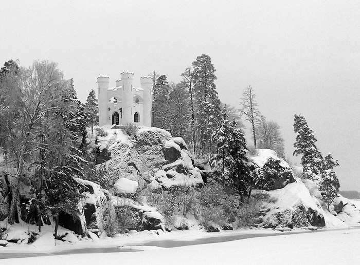 Mon Repos Park in Vyborg, Leningrad Oblast, Russia